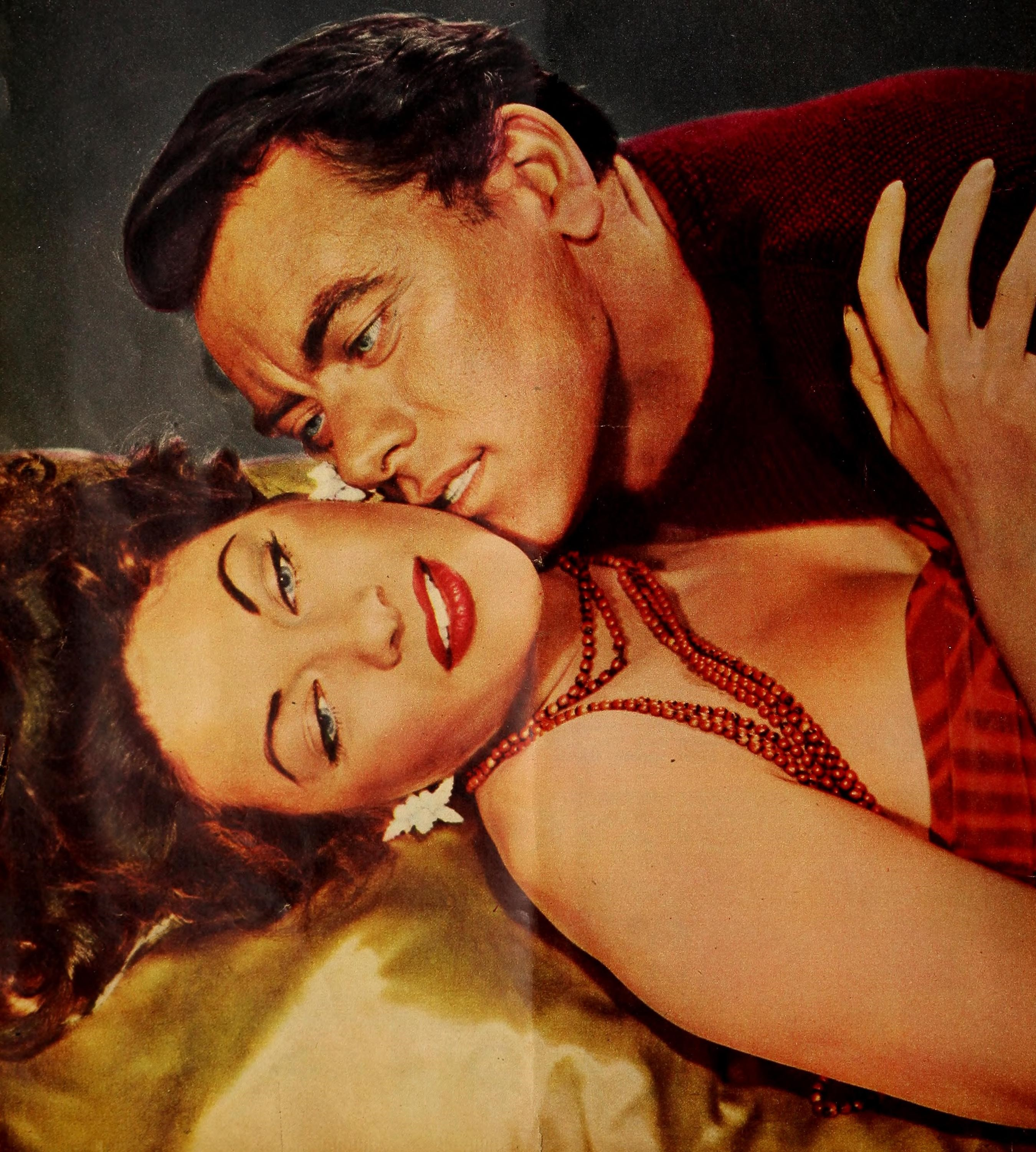 Canadian actors Yvonne De Carlo and John Ireland in a publicity photo for the film Hurricane Smith (1952).